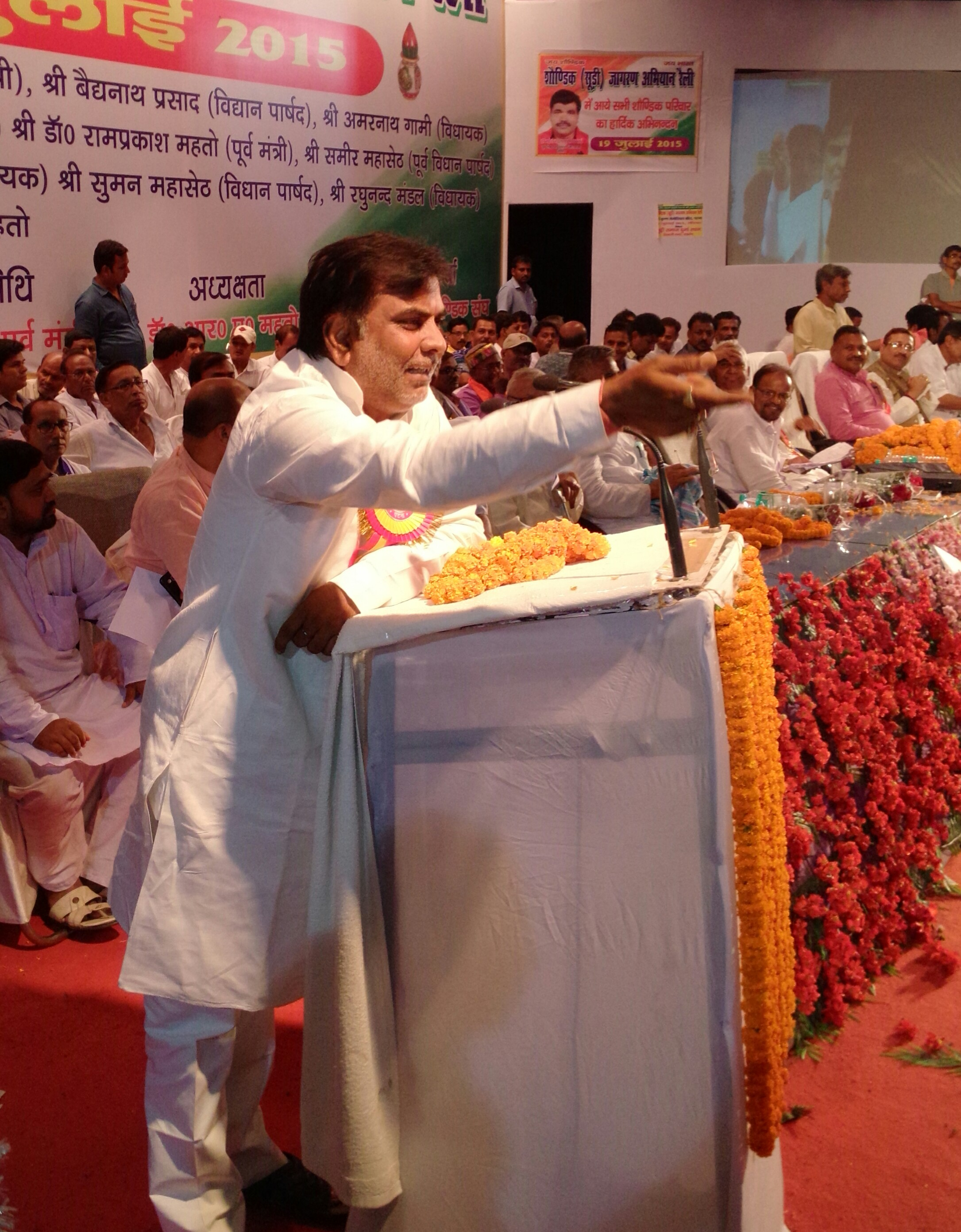 Amarnath Gami Addressing a Rally in Patna.